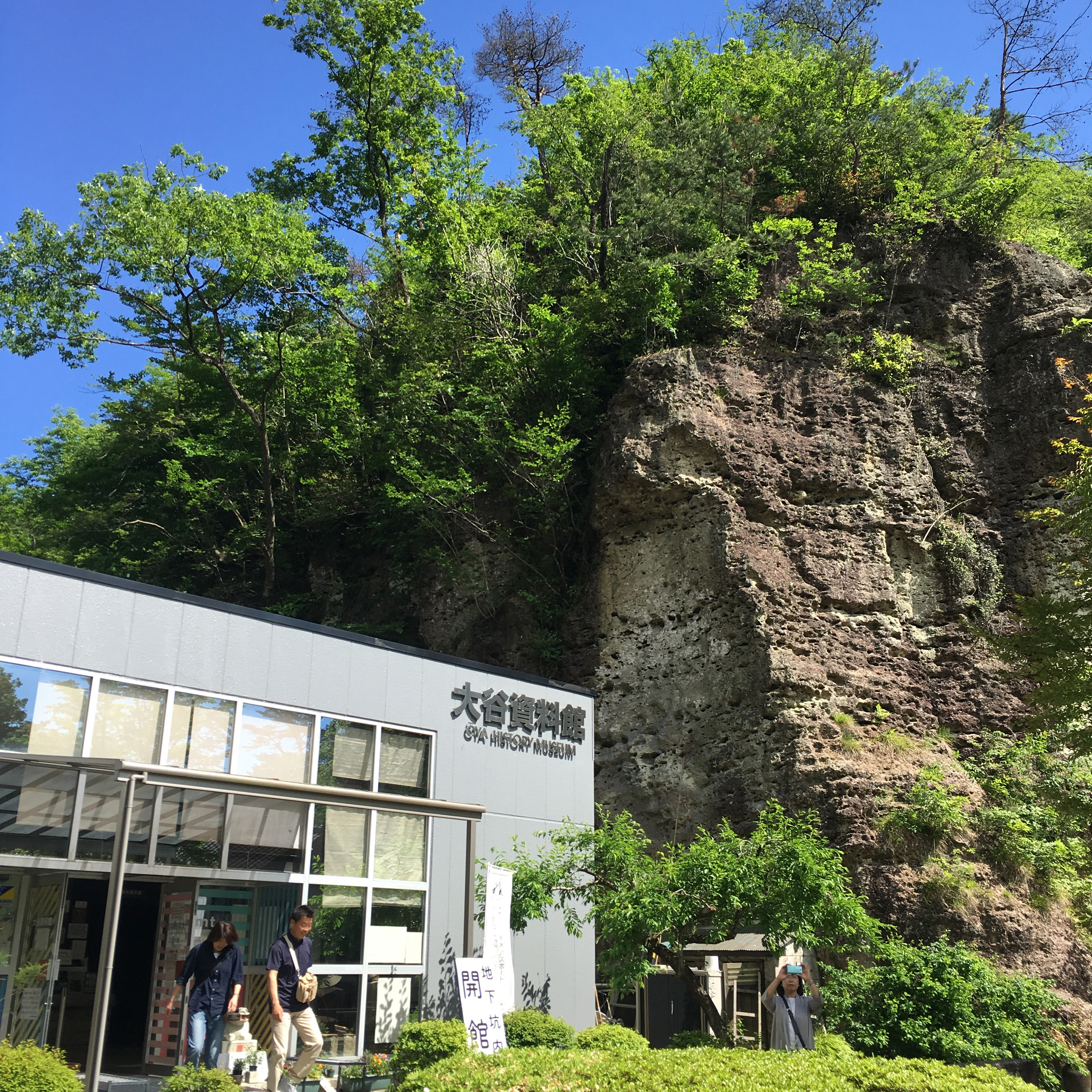 Entrance of Oya History Museum (Utsunomiya, Japan)